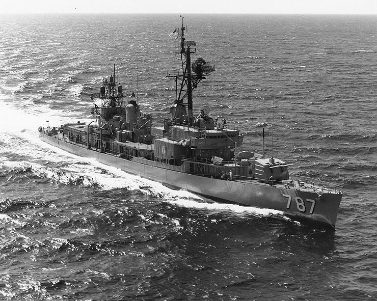 The U.S. Navy destroyer USS James E. Kyes (DD-787) underway in Hawaiian waters, 5 July 1966.